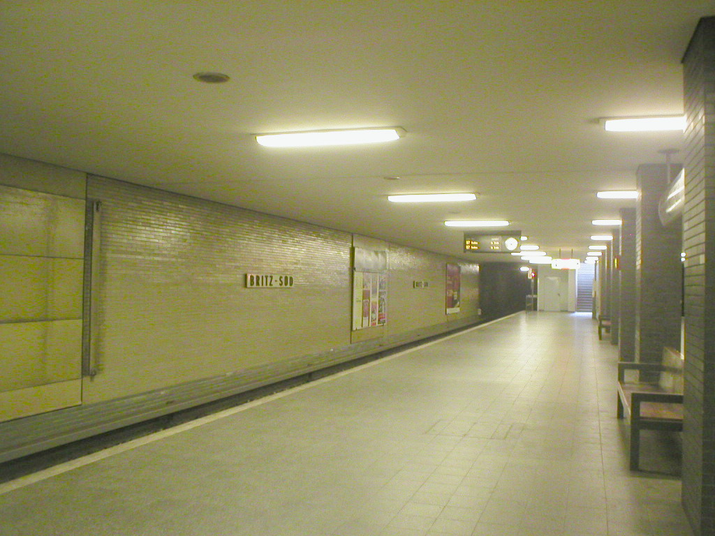 the Berlin U-Bahn station Britz-Süd, line U7